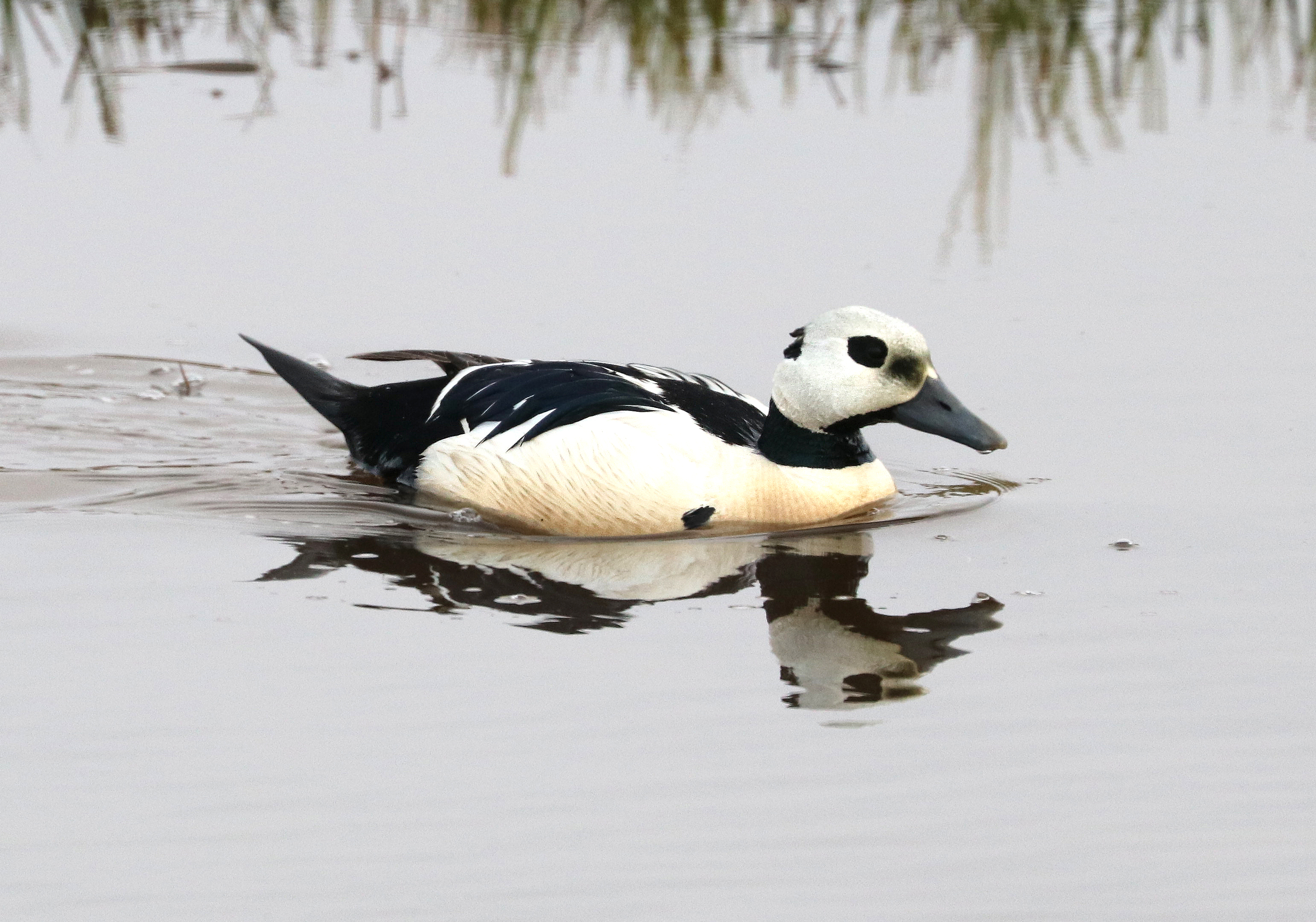 ABA AREA BIRDS: My Photo "Life List"